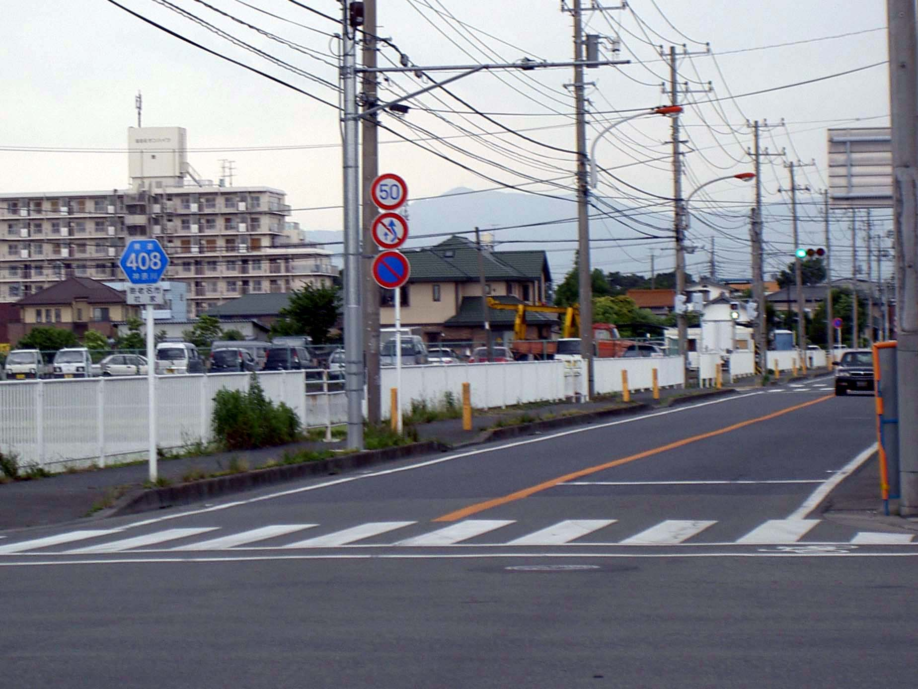 Kanagawa prefectural road route 408 ja: 神奈川県道408号社家停車場線